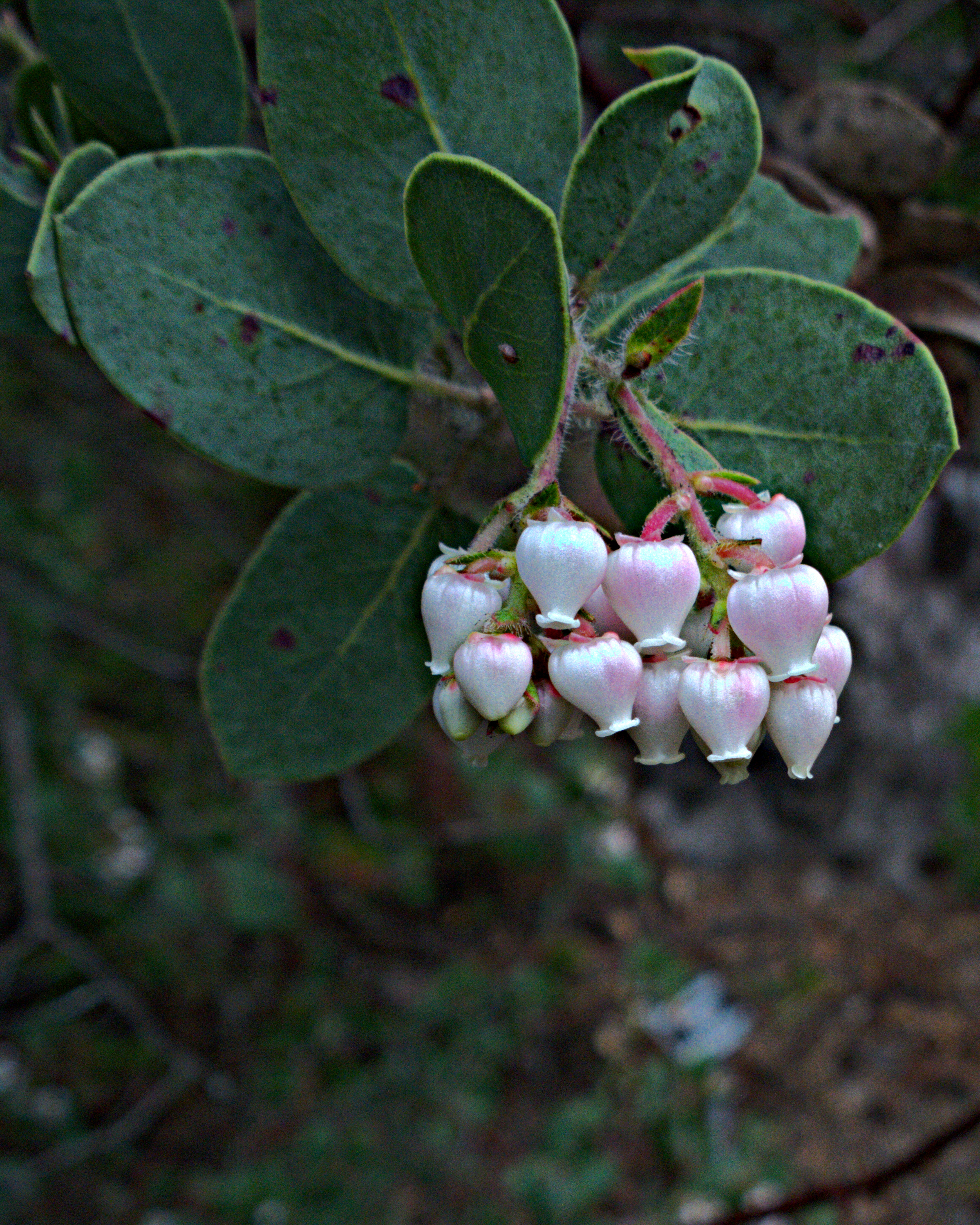 Arctostaphylos catalinae—Santa Catalina manzanita. Included in the CNPS Inventory of Rare and Endangered Plants on list 1B.2 (rare, threatened, or endangered in CA and elsewhere). Also include in the IUCN Red List as vulnerable. The species future on its home island of Santa Catalina is brighter than it was before the removal of feral goats. Photographed at Regional Parks Botanic Garden located in Tilden Regional Park near Berkeley, CA.